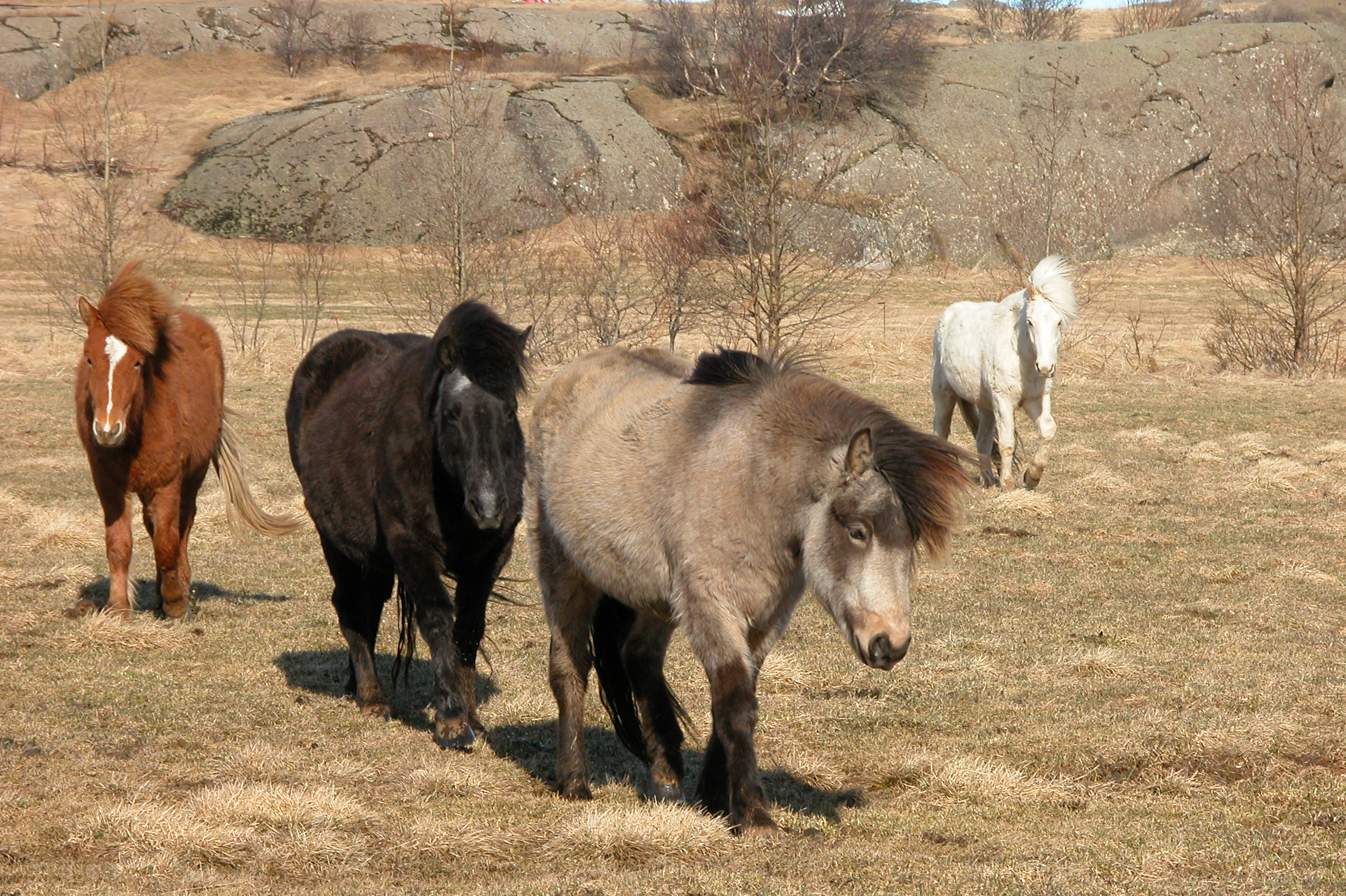 Icelandic horse